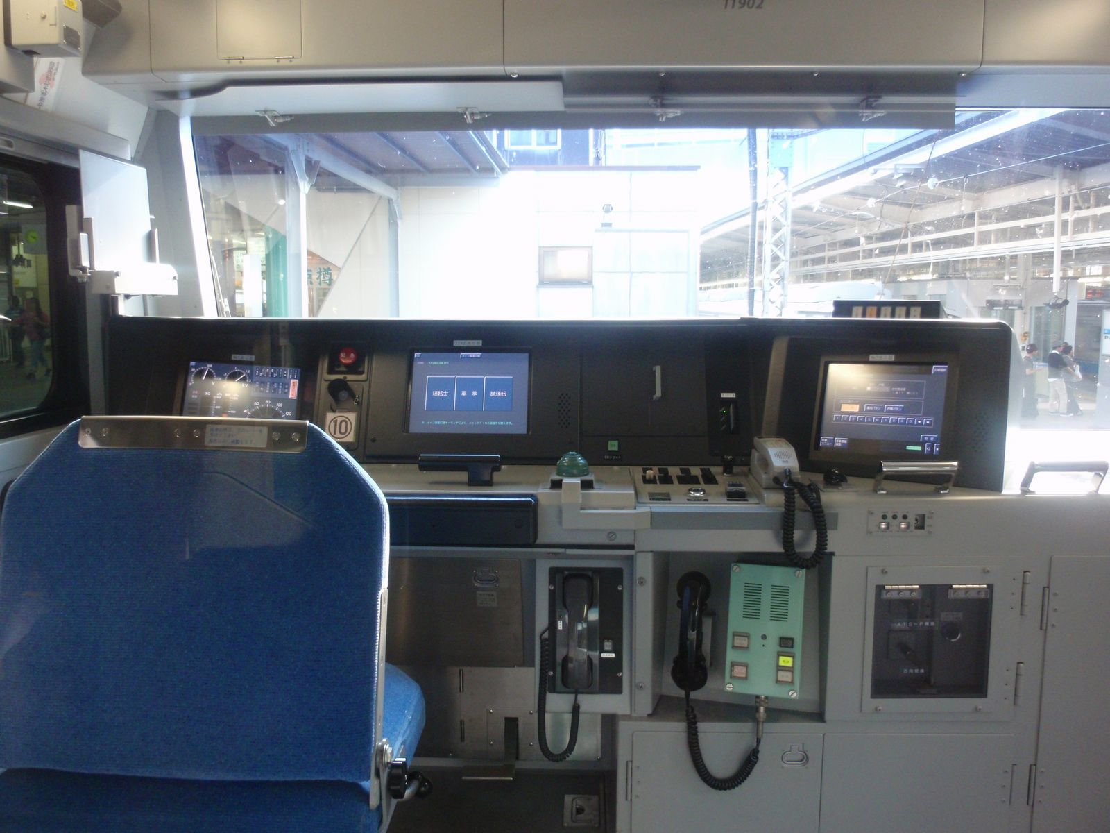 Cockpit of EMU Type 11000 operated by Sagami Railway.